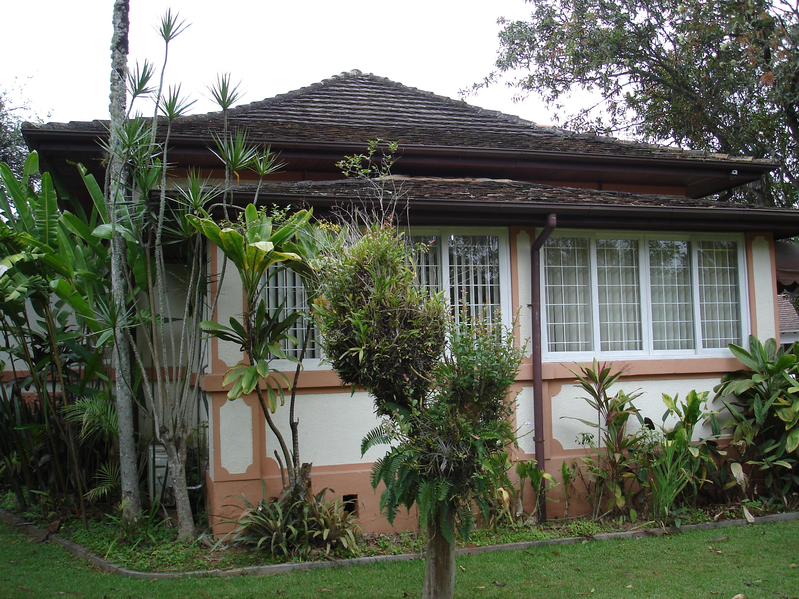 The house of Brazilian poet Lindolf Bell in Timbó, Santa Catarina, today a museum.